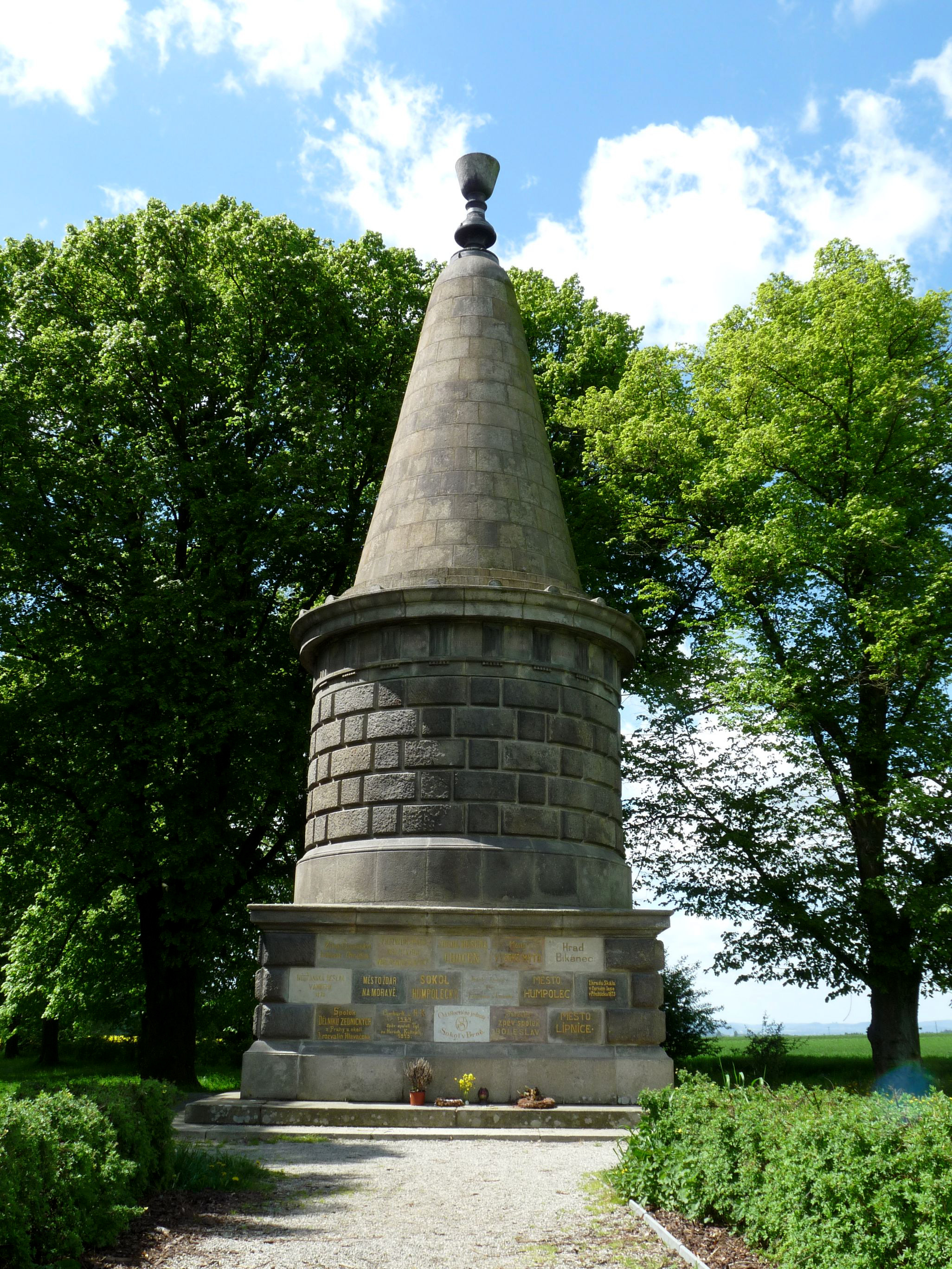 Jan Žižka monument by the village of Žižkovo Pole, Havlíčkův Brod District, Vysočina Region, Czech Republic.